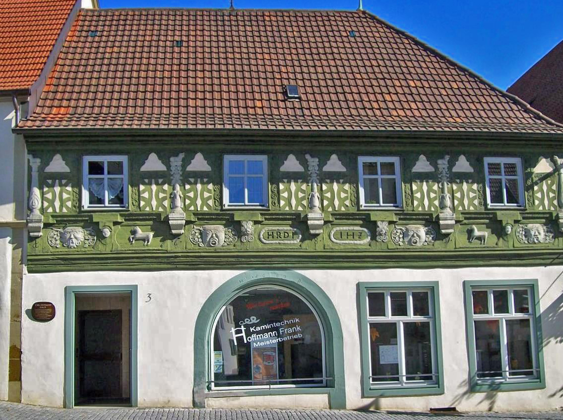 Front of the Jörg-Hofmann-House constructed 1689 by the carpenter Jörg Hofmann in Zeil am Main.